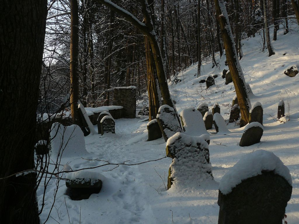 View of the Jewish cemetery in the village of Podbřezí, Hradec Králové Region, Czech Republic in winter.